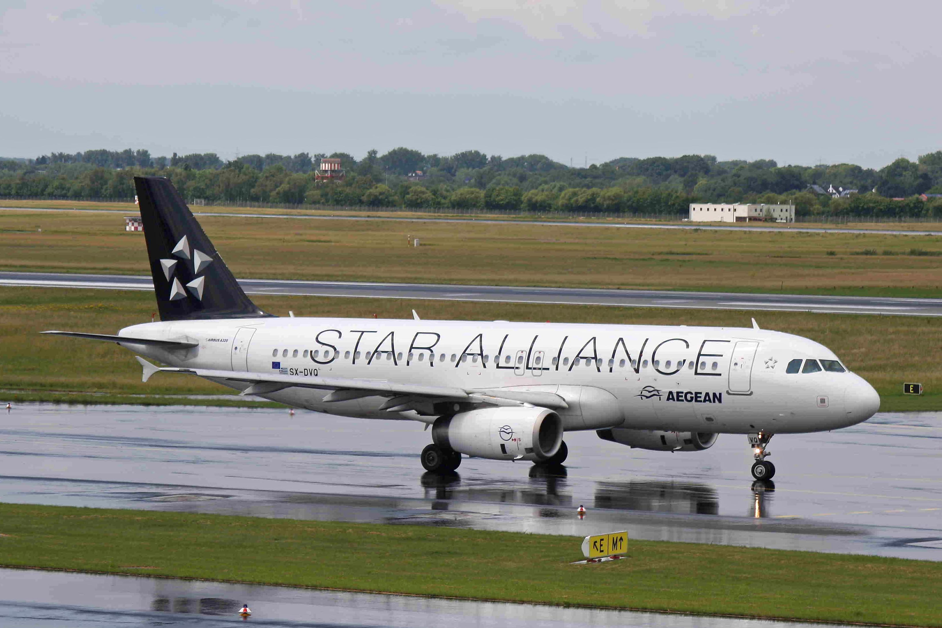 'Star Alliance' c/scheme